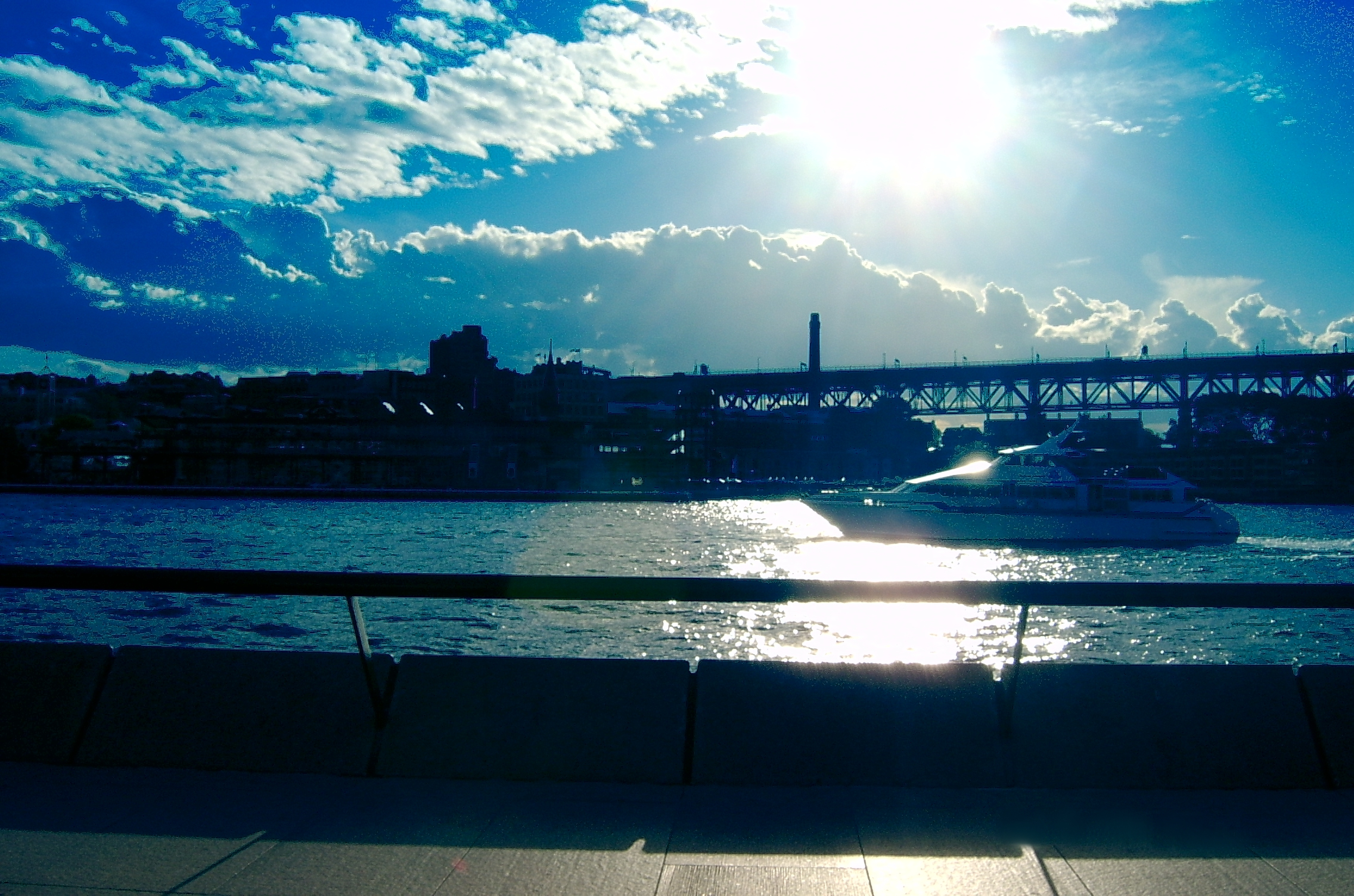 Harbour Bridge, Sydney, Australia